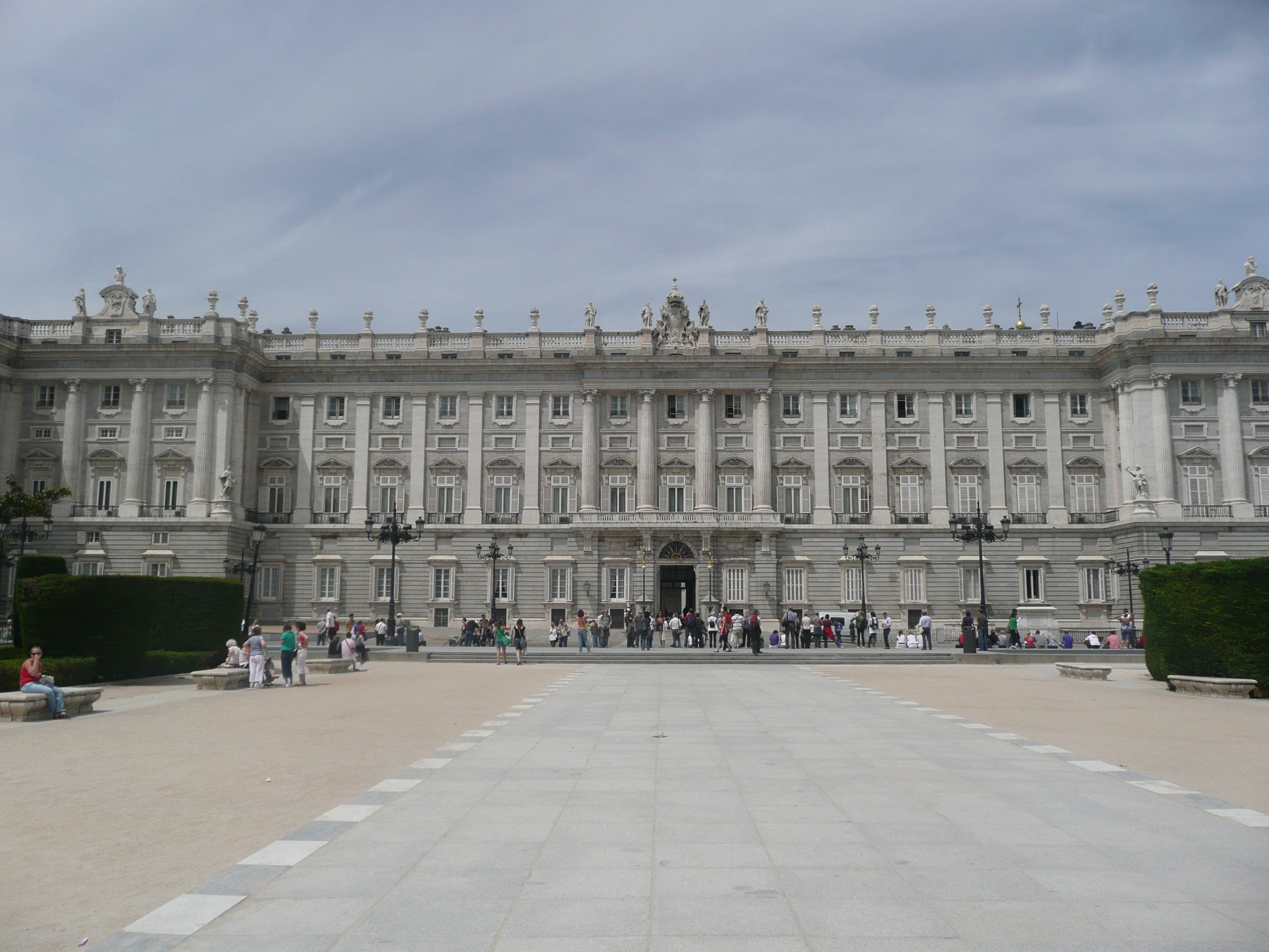 Royal Palace (Madrid)